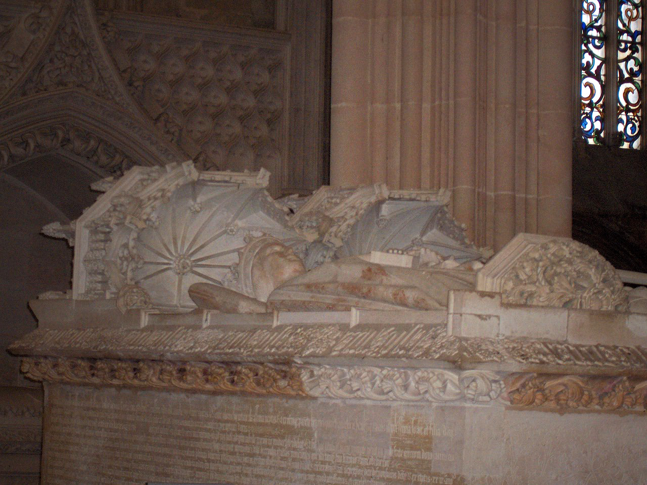 Tomb of king João I and Philippa of Lancaster, lying under elaborately ornamented baldachins; Founder's chapel; Monastery of Batalha, Portugal